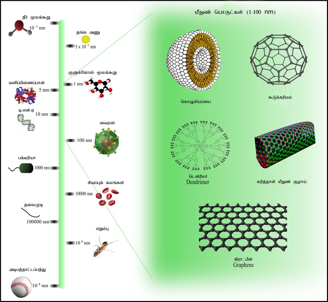 Comparison of nanomaterials sizes